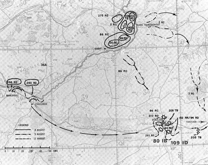 Soviet 36th Army Operations, 8-12 August 1945